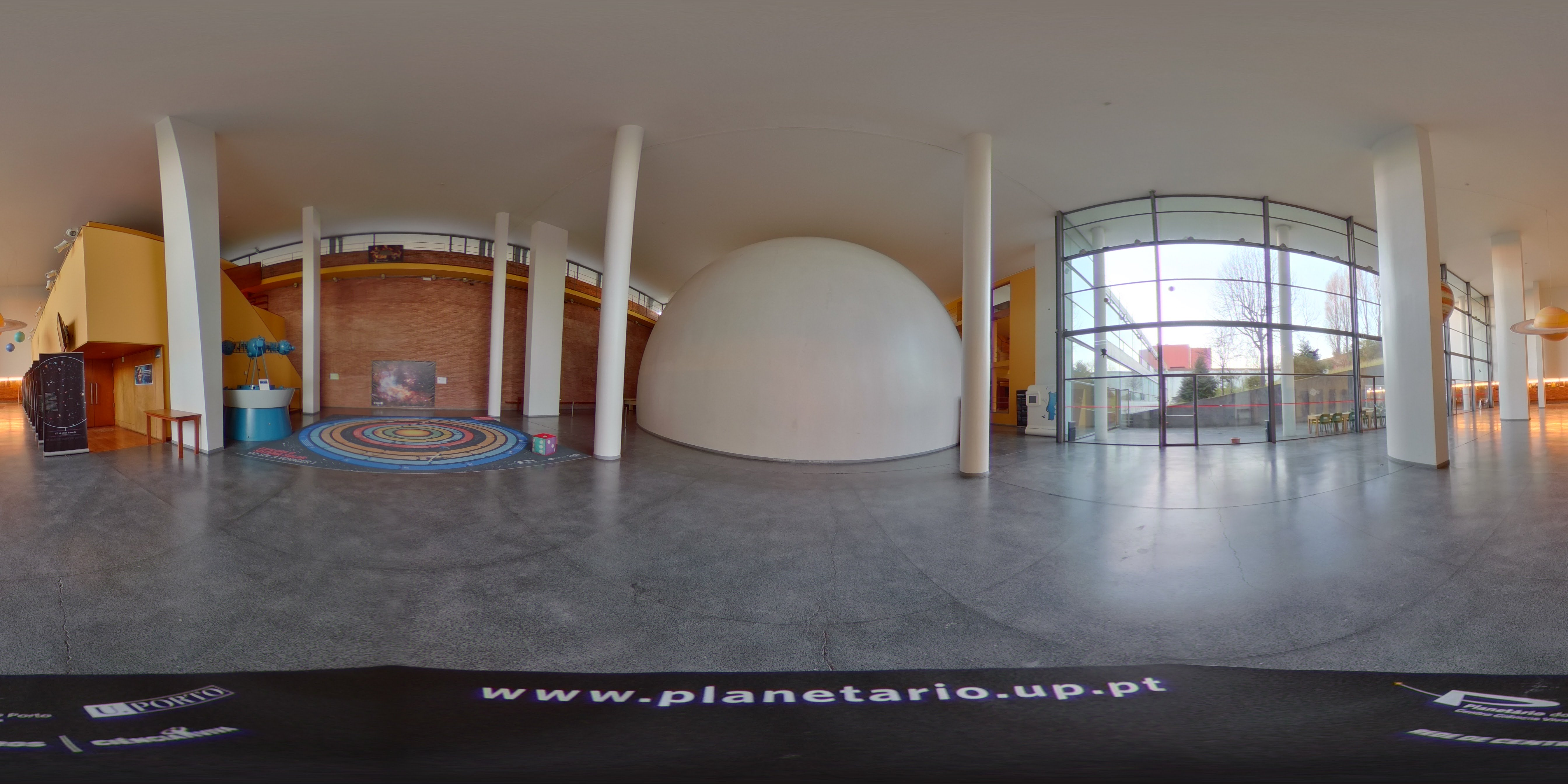 360 degree view of the Porto Planetarium Hall